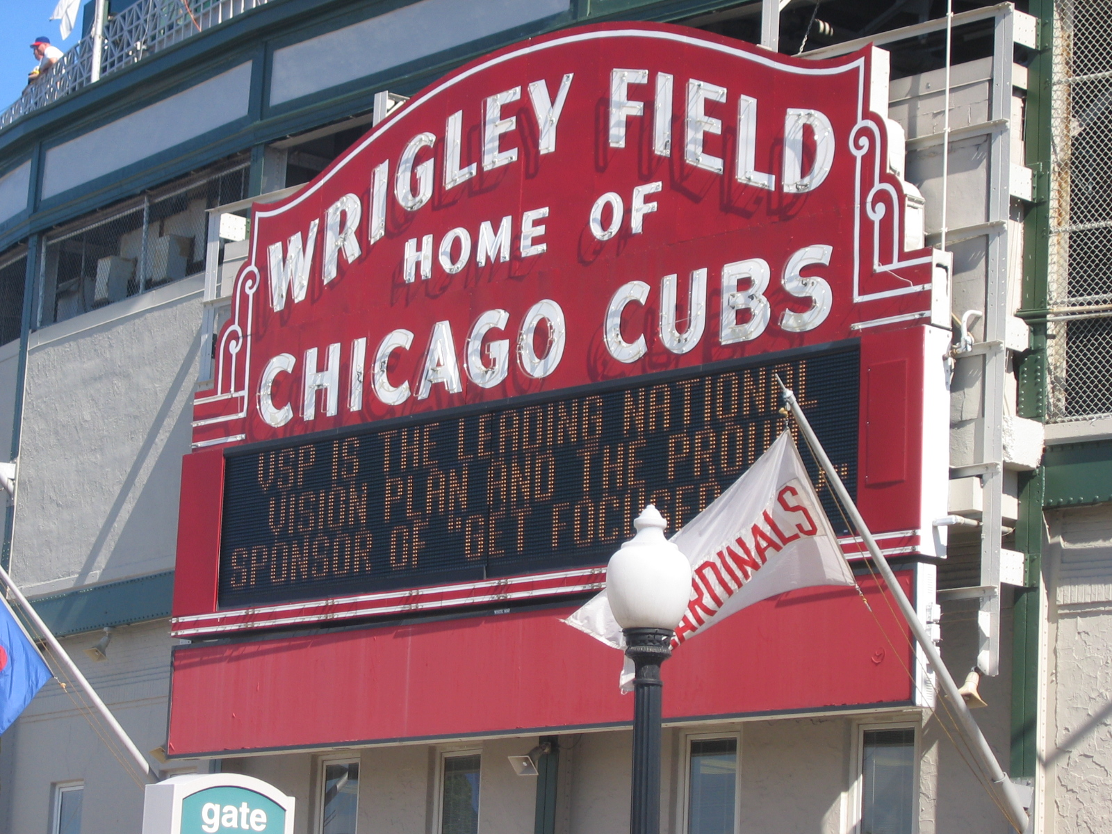 Closeup of the red sign that adorns Wrigley Field, Chicago, IL.